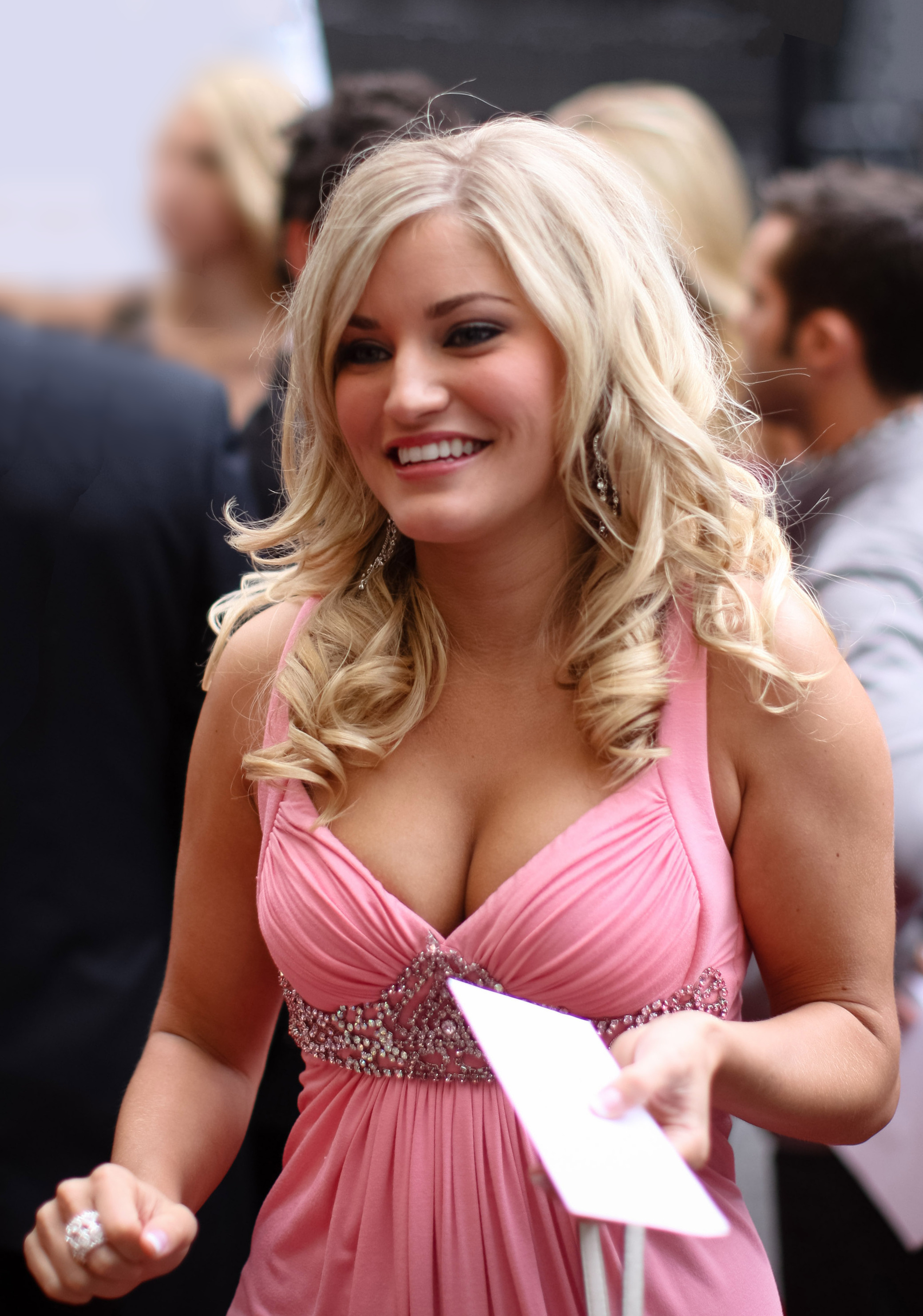 Justine Ezarik at the 2010 Streamy Awards. From the photographer's description: Please feel free to use these photos under a Creative Commons Attribution license (which means you may use the photos as long as you attribute the photos to and provide a link back to